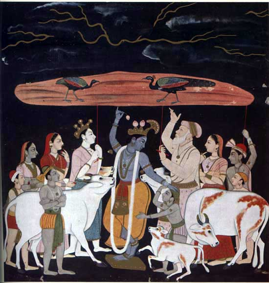 Krishna holding Govardhana. See File:Govardhana-Mola-Ram1.jpg. As a "faithful reproduction" of a public-domain work, believed to be in the public domain.